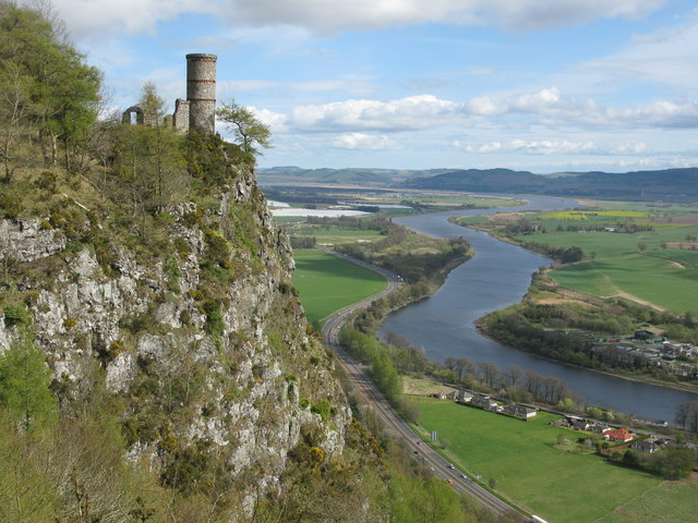 In view are Kinnoull Hill Tower, the A90 (Perth to Dundee road) and the River Tay.